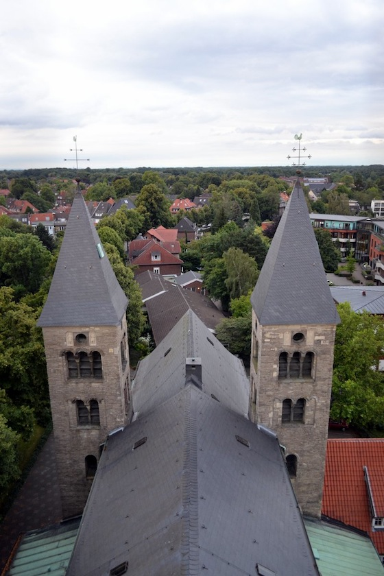 Choir bell-towers St. Mauritz Münster